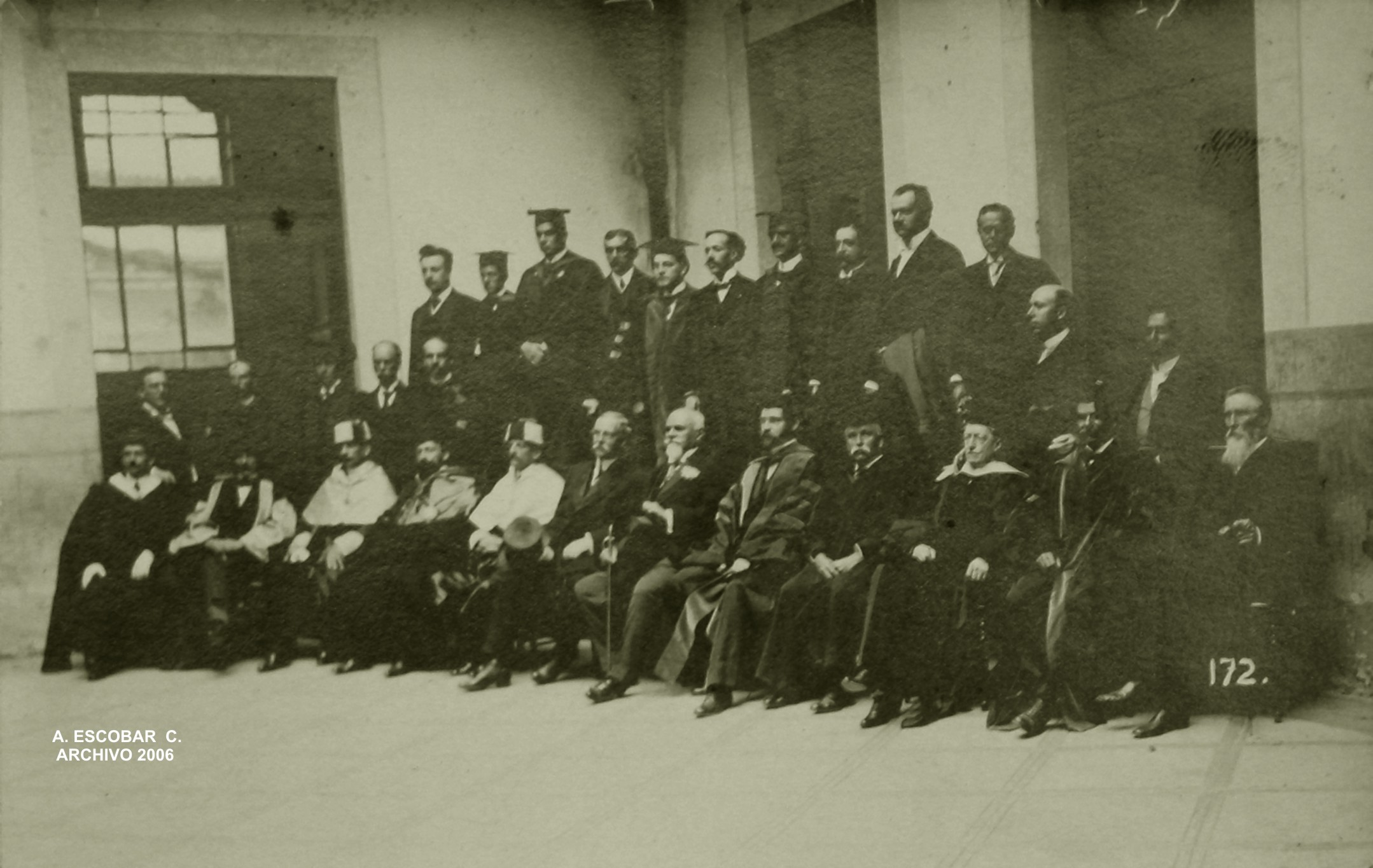 Mexico's centennial of independence festivity, 1910; Mr. Justo Sierra